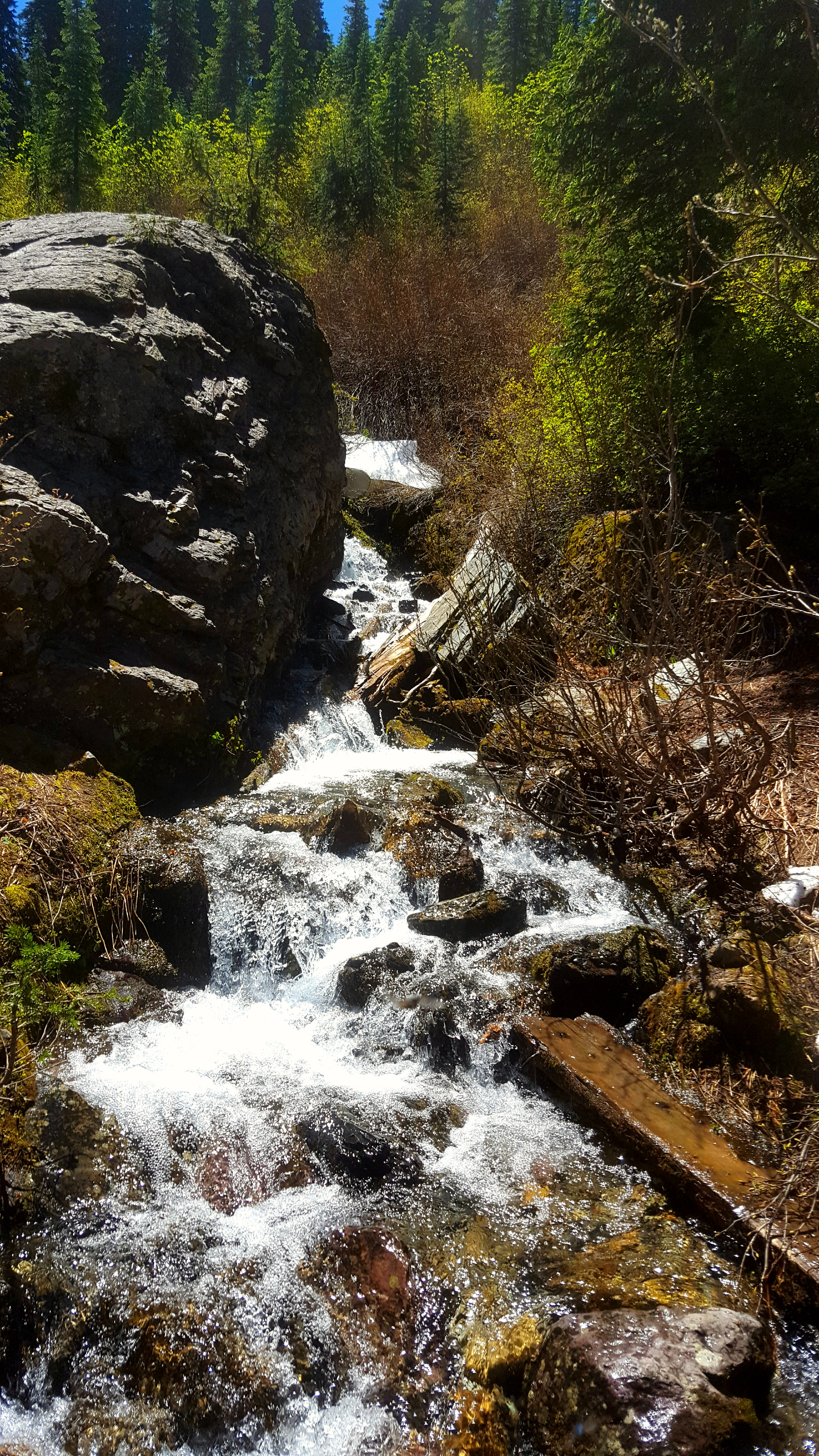 Spring runoff in the stream just south of Camp Misery, Jewel Basin photo by C. Sneddon, USFS